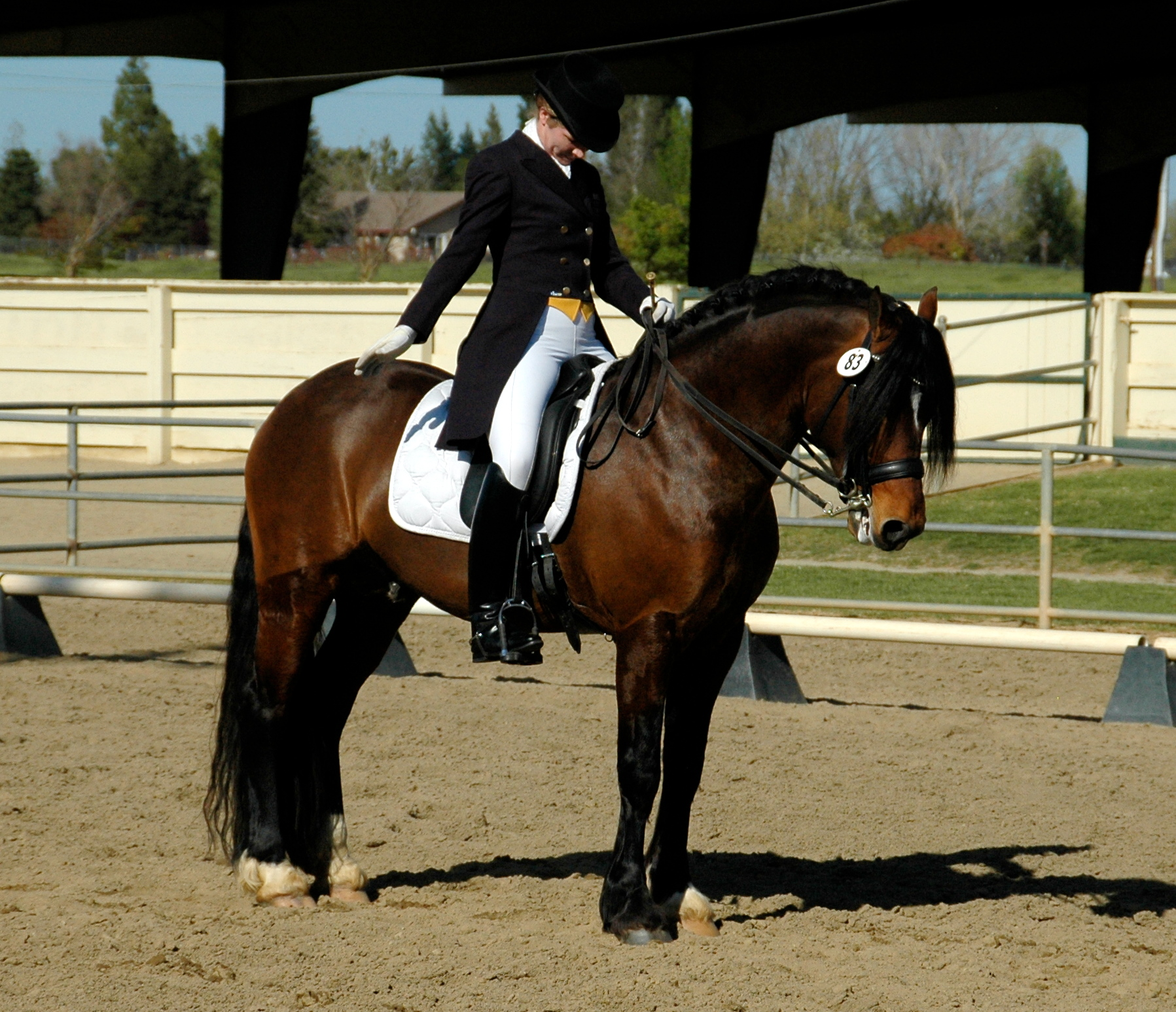 Welsh Cob